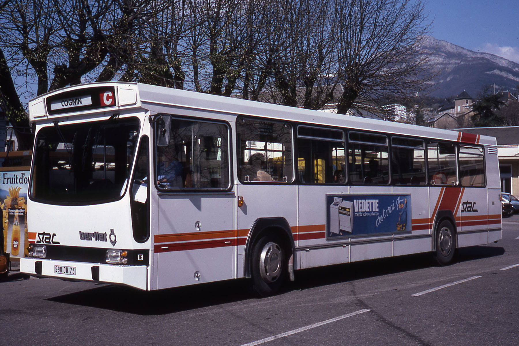 The bus Berliet PR100 n°16 of the STAC, on the line C (Cognin↔Hôtel de ville, Chambéry), in Chambéry on 1980.